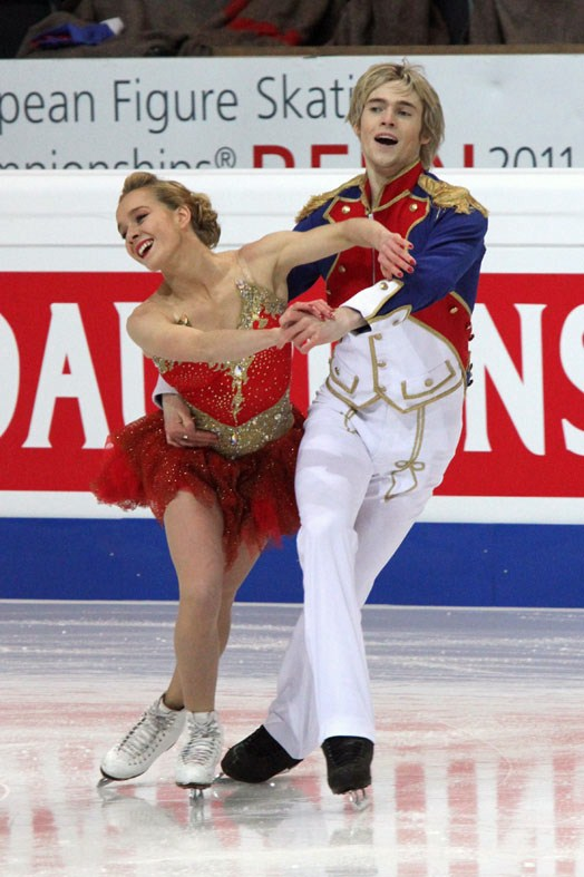 Pernelle Carron / Lloyd Jones at the 2011 European Figure Skating Championships